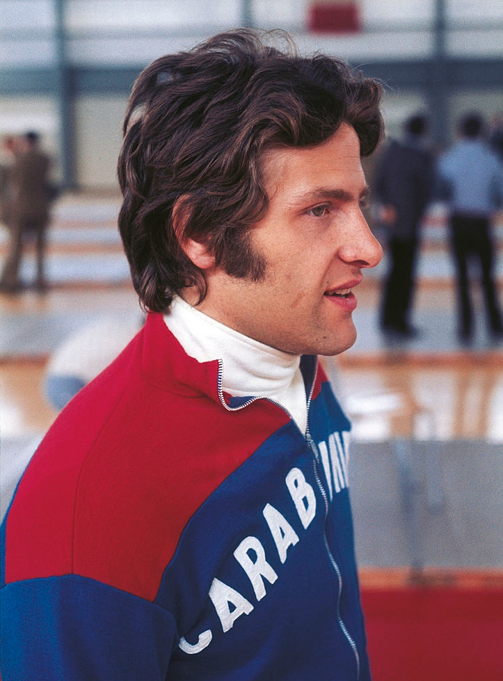 Michele Maffei, 1972 Olympics